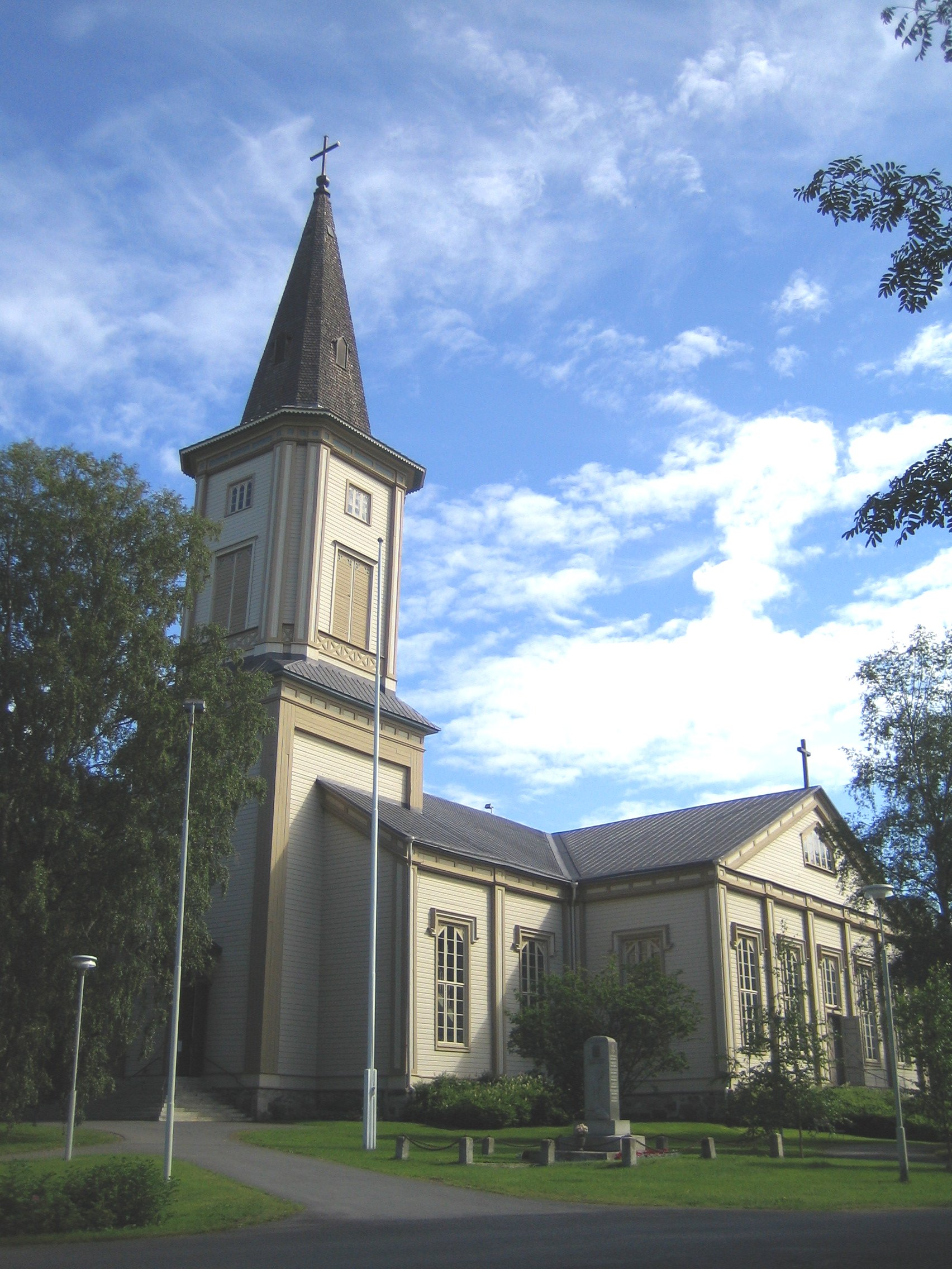 Sotkamo Church in Sotkamo, Finland, was designed by architect Johan Oldenburg in 1854 and built in 1860–1870.